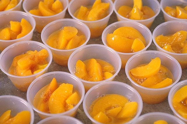 peaches in syrup